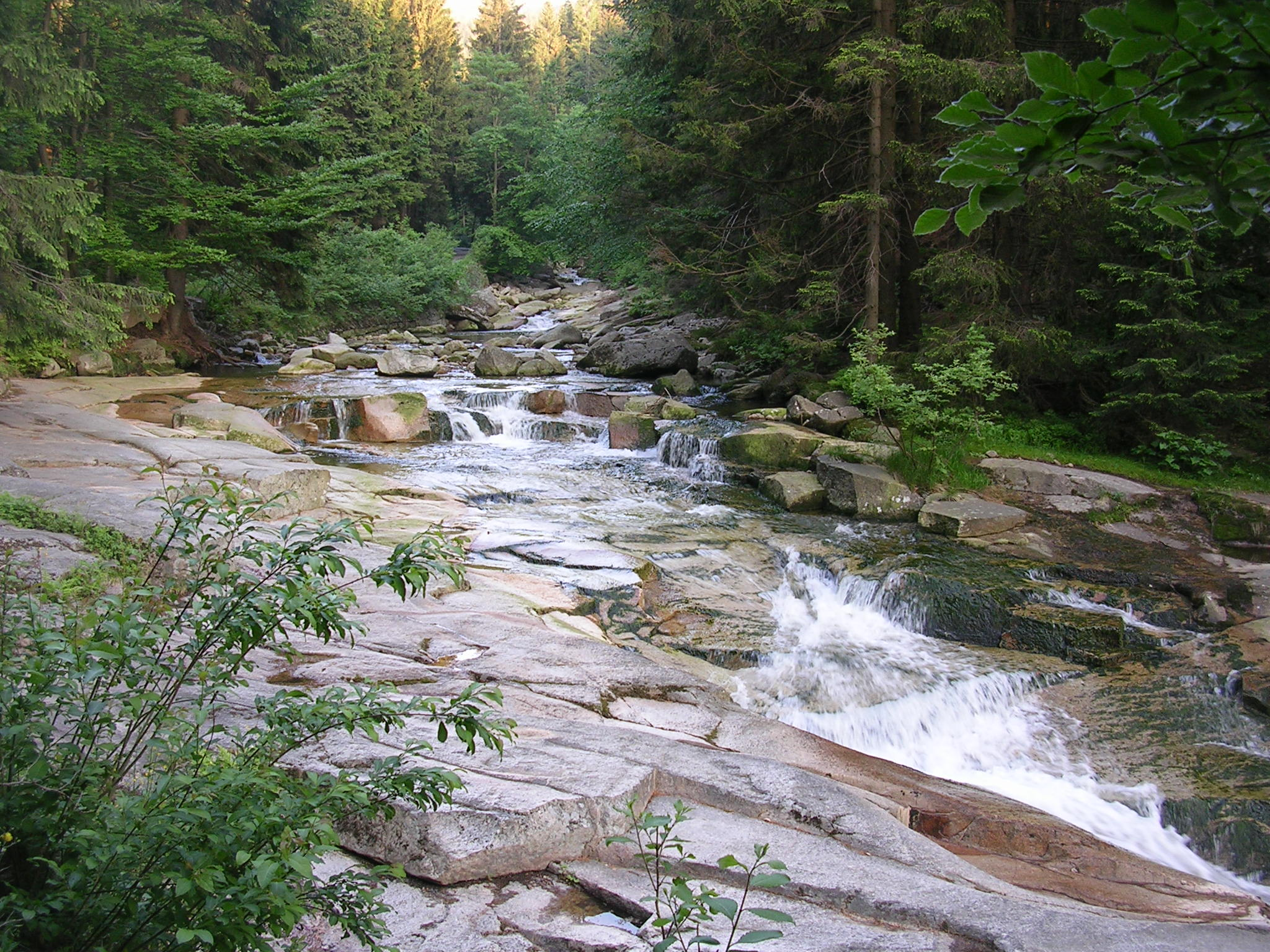 Mumlava River, Giant Mountains